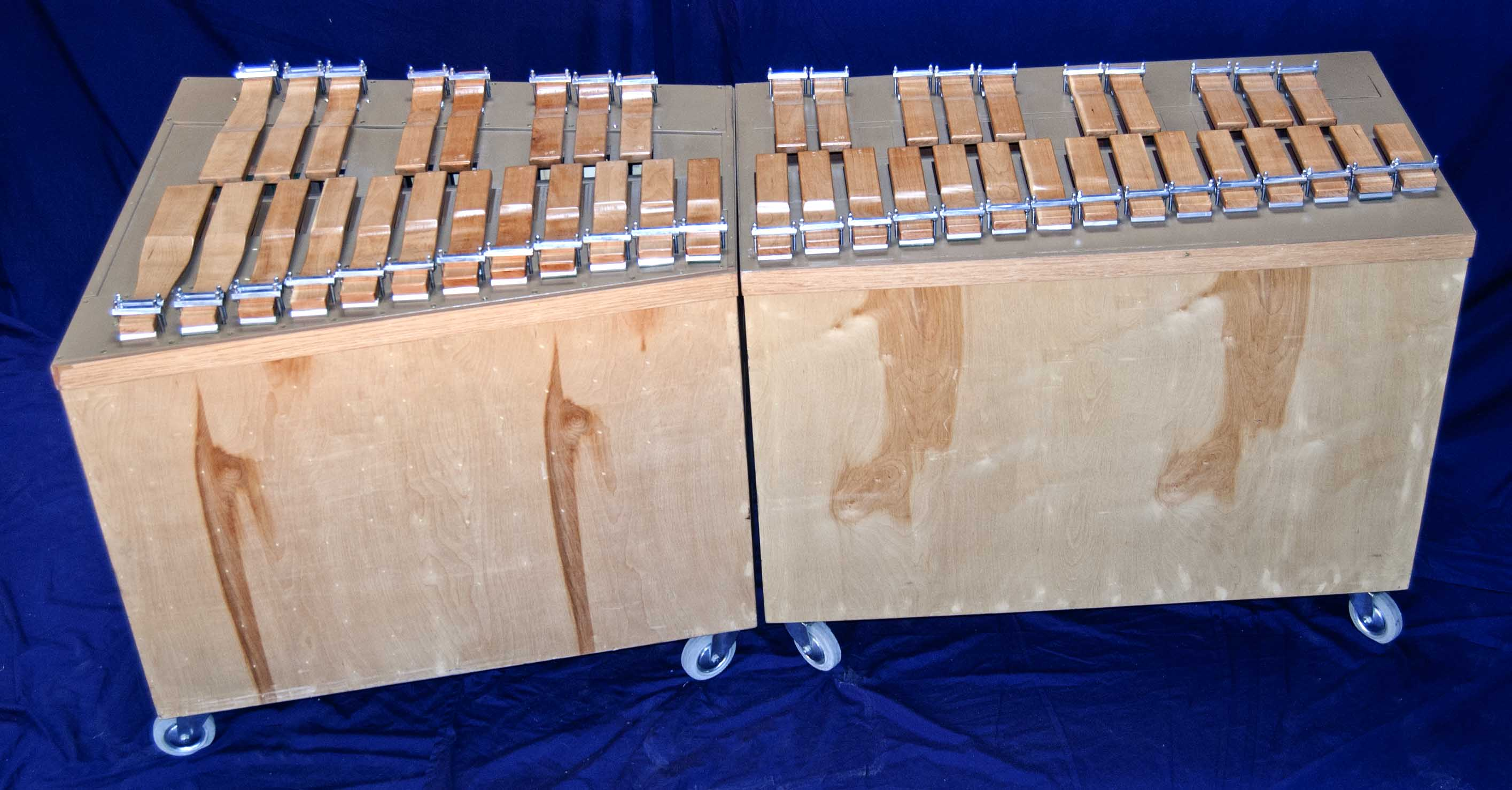 Flapamba (from Emil Richards Collection). Range F2-C6.